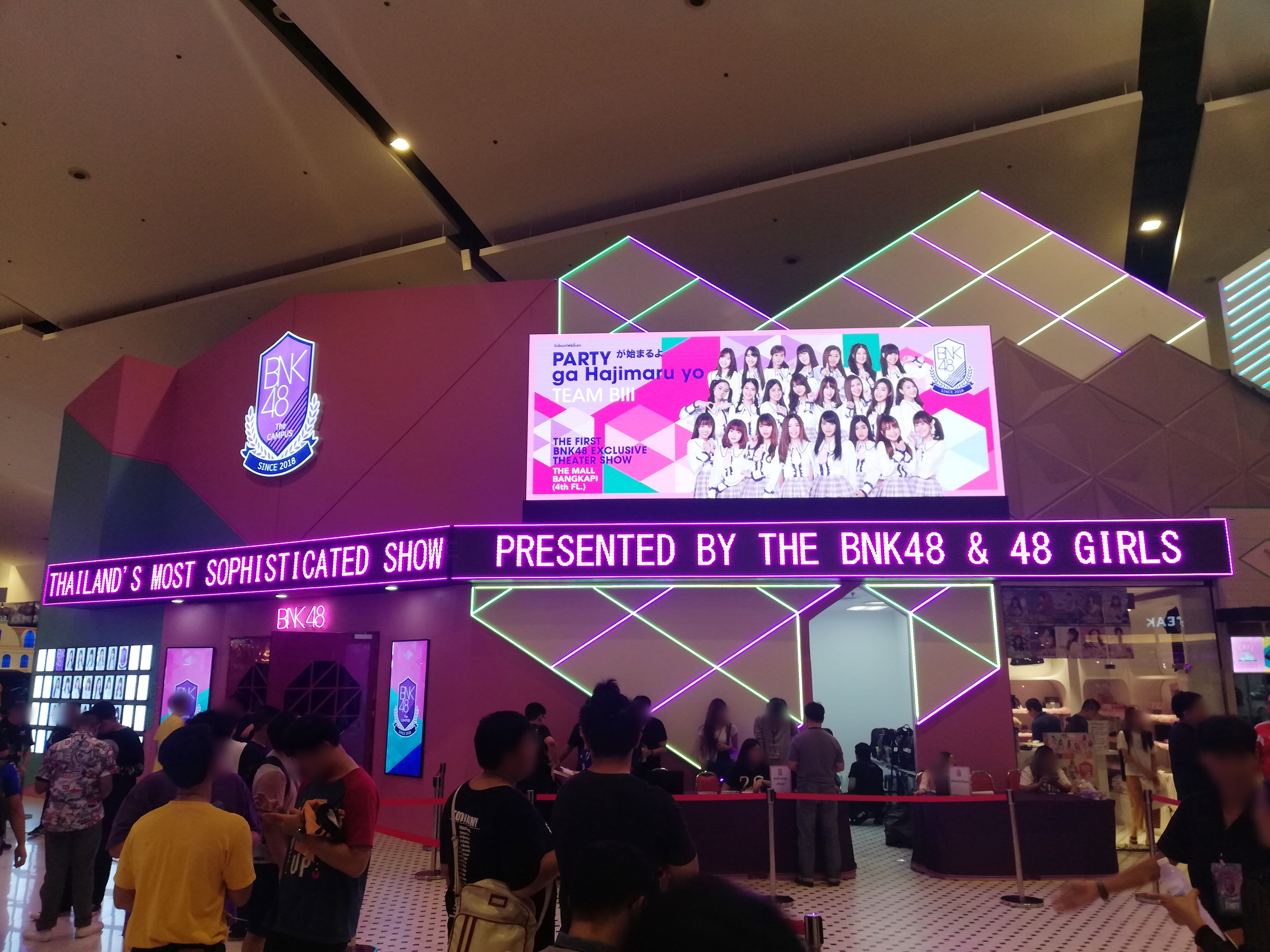 BNK48 theater in May 2018